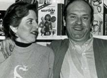 Angel Berroeta